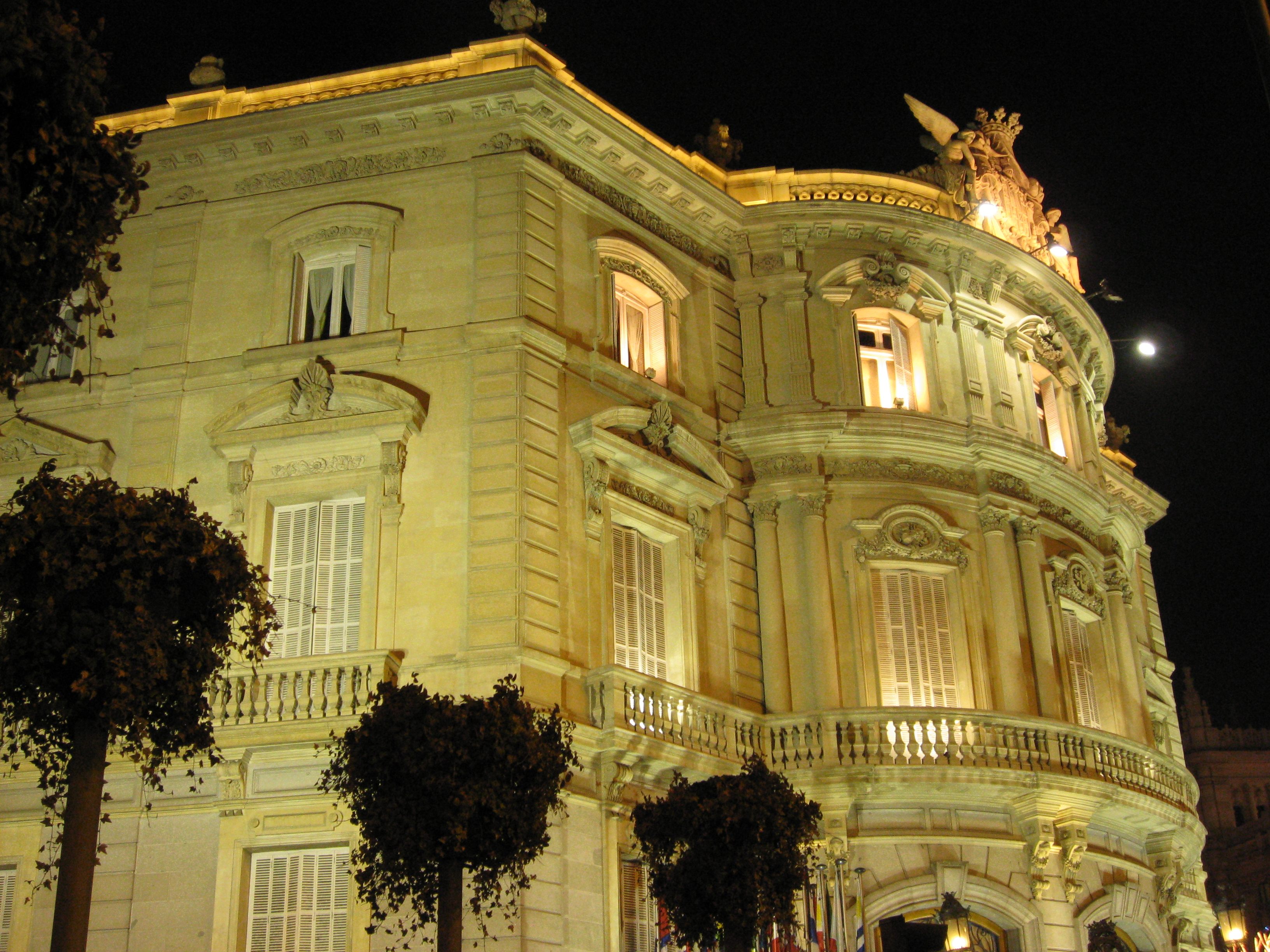 Palacio de Linares, at the Plaza de Cibeles (square) in Madrid (Spain). Projected in 1872 by architect Carlos Colubí and built from 1873 to 1884. Nowadays it's the Casa de América ("House of the Americas") headquarters.